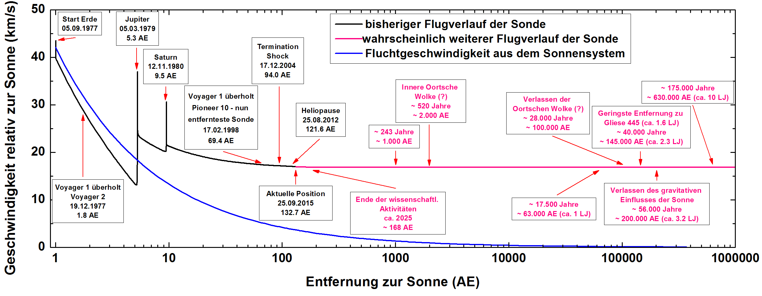 Past and future mission of the Voyager 1 probe based on their velocity w.r.t. the sun